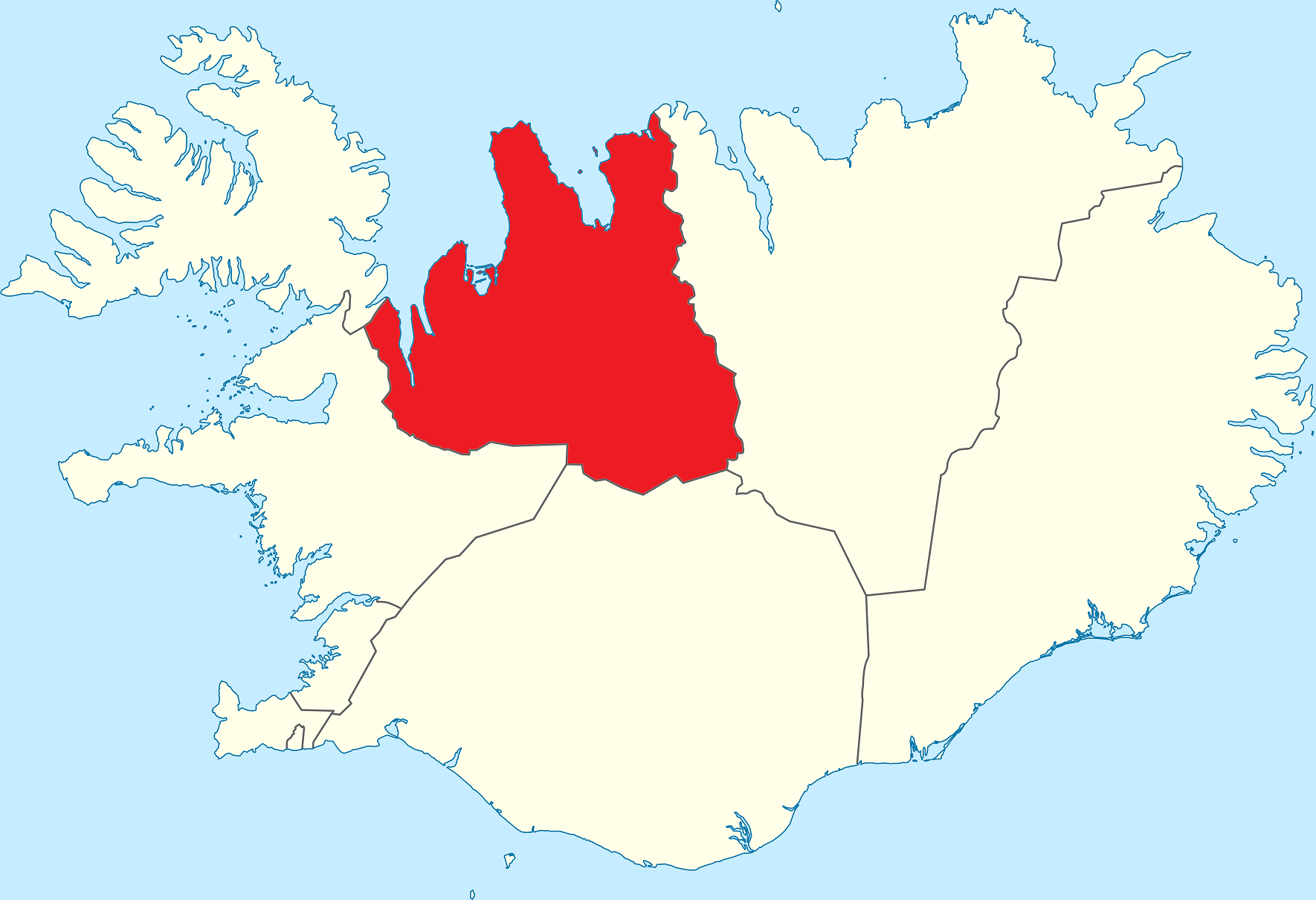 Region highlighted within Iceland as a whole.